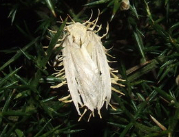 Cordyceps tuberculata on a noctuid moth Neglected Rustic (Xestia castanea) is common in the area of Alexandria, West Dunbartonshire, Scotland and occasionally rests on gorse. (broken link)